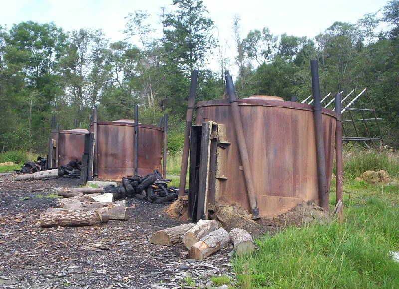 Modern retorts used to produce charcoal (in charcoal burning). Lipna, Beskid Niski, Poland.